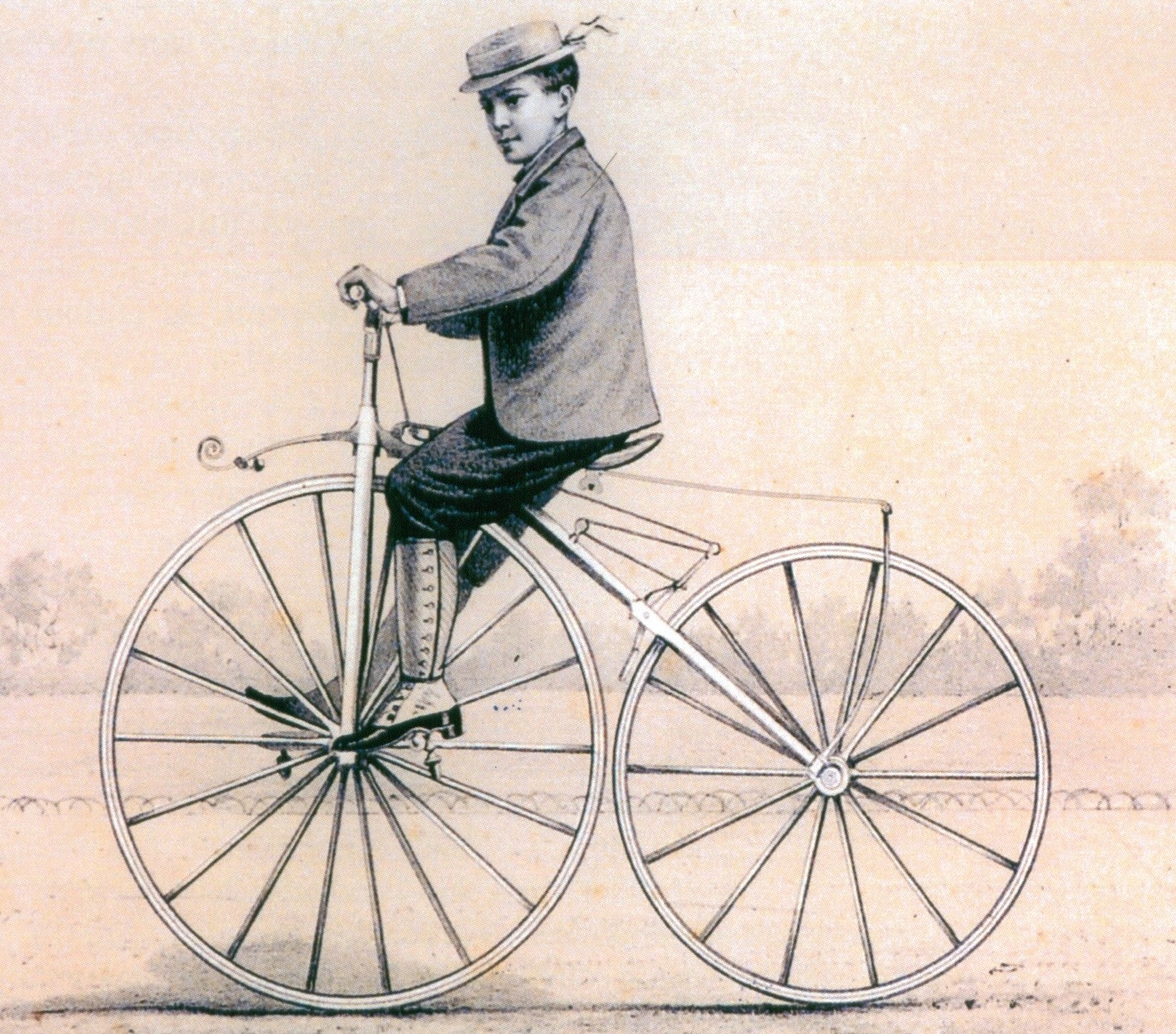 young velocipedist on Michaux velocipede